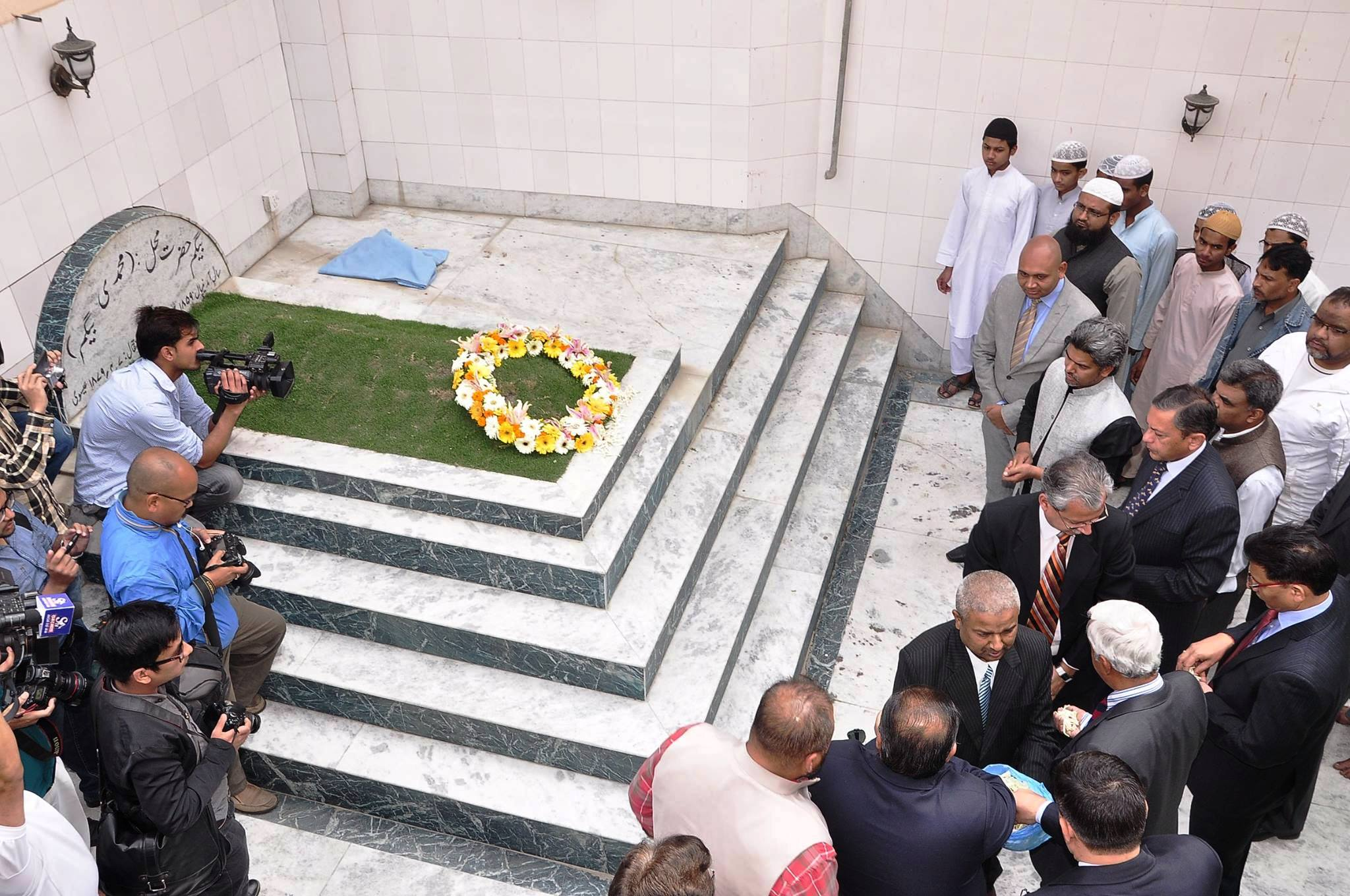 Photograph of tomb of Begum Hazrat Mahal near Jame Masjid in Kathmandu